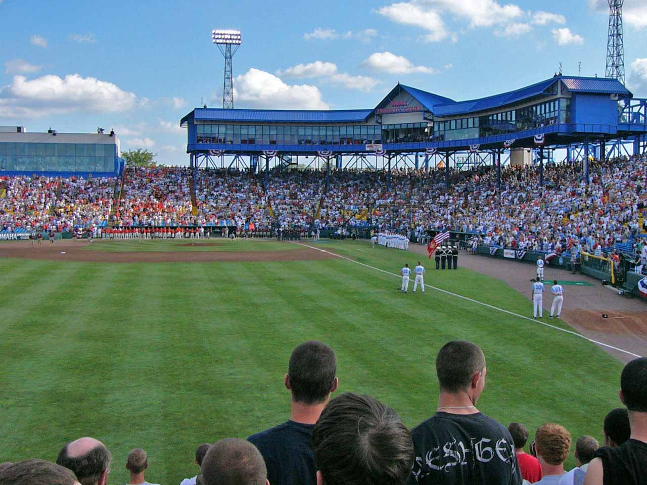 2nd game of 2006 finals of College World series at Rosenblatt stadium in Omaha, - Univ. of North Carolina vs. Oregon State. Photograph taken by John Workman. 18:25, 31 January 2007 . . Workman . . 1280×960 (175 KB)